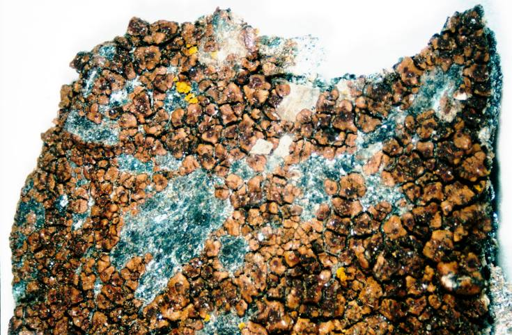 Acarospora fuscata (Schrader) Arnold, 1870 (photograph of a herbarium specimen taken through a dissecting microscope (x6) showing brown areoles with darker brown disks of immersed apothecia) Growing on a stone wall in Westminster, Carroll County, Maryland, USA; collected and identified by Elmer G. Worthley (No. L-425, 21 Sep 1981); specimen is now in the Lichen Herbarium of the New York Botanical Garden.